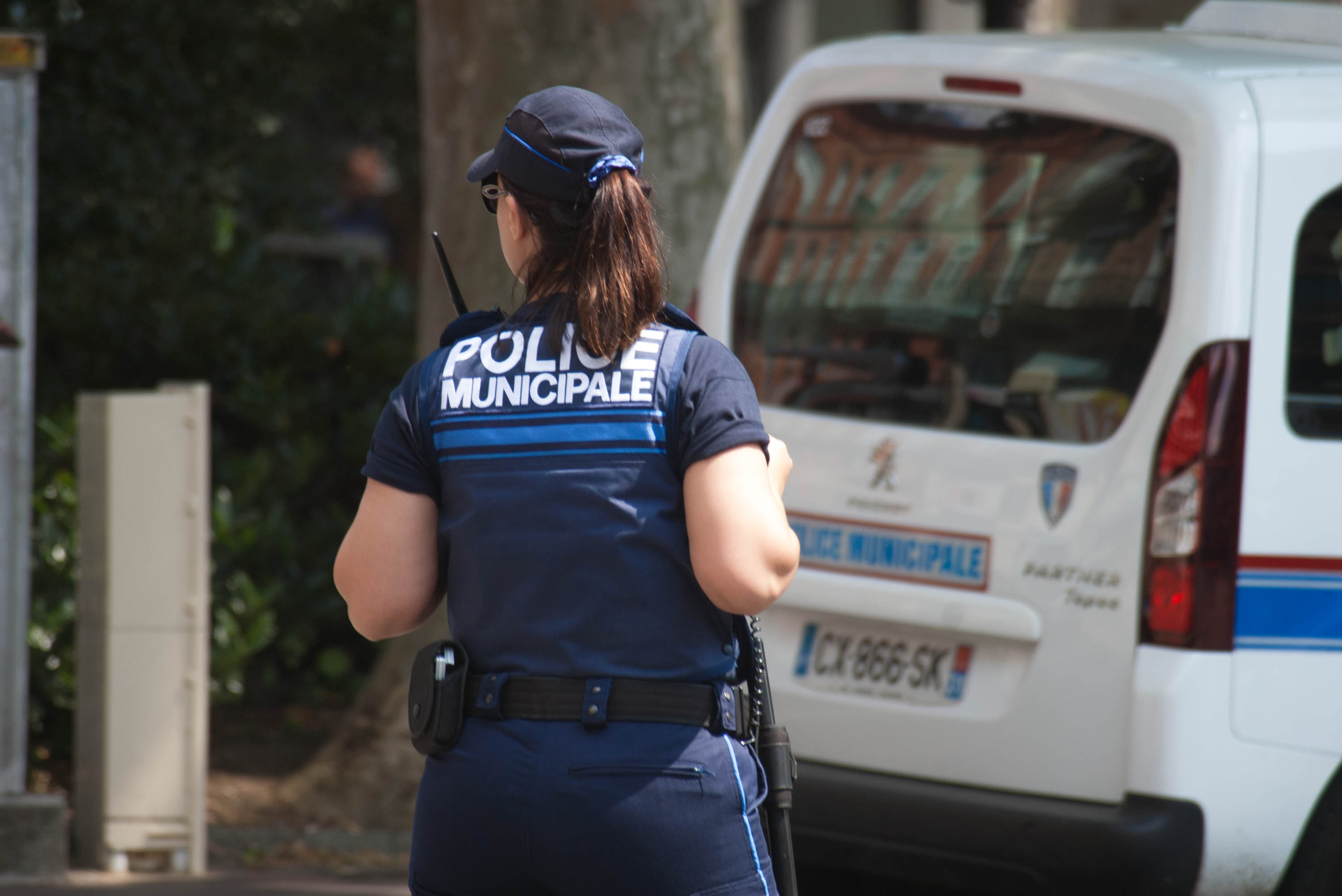 Municipal police officer of Toulouse at the Gay Pride 2014